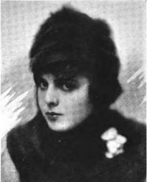 Frances Nelson, from a 1916 publication.